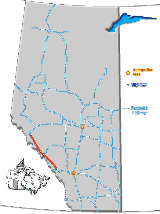 Map of Alberta Highway 93